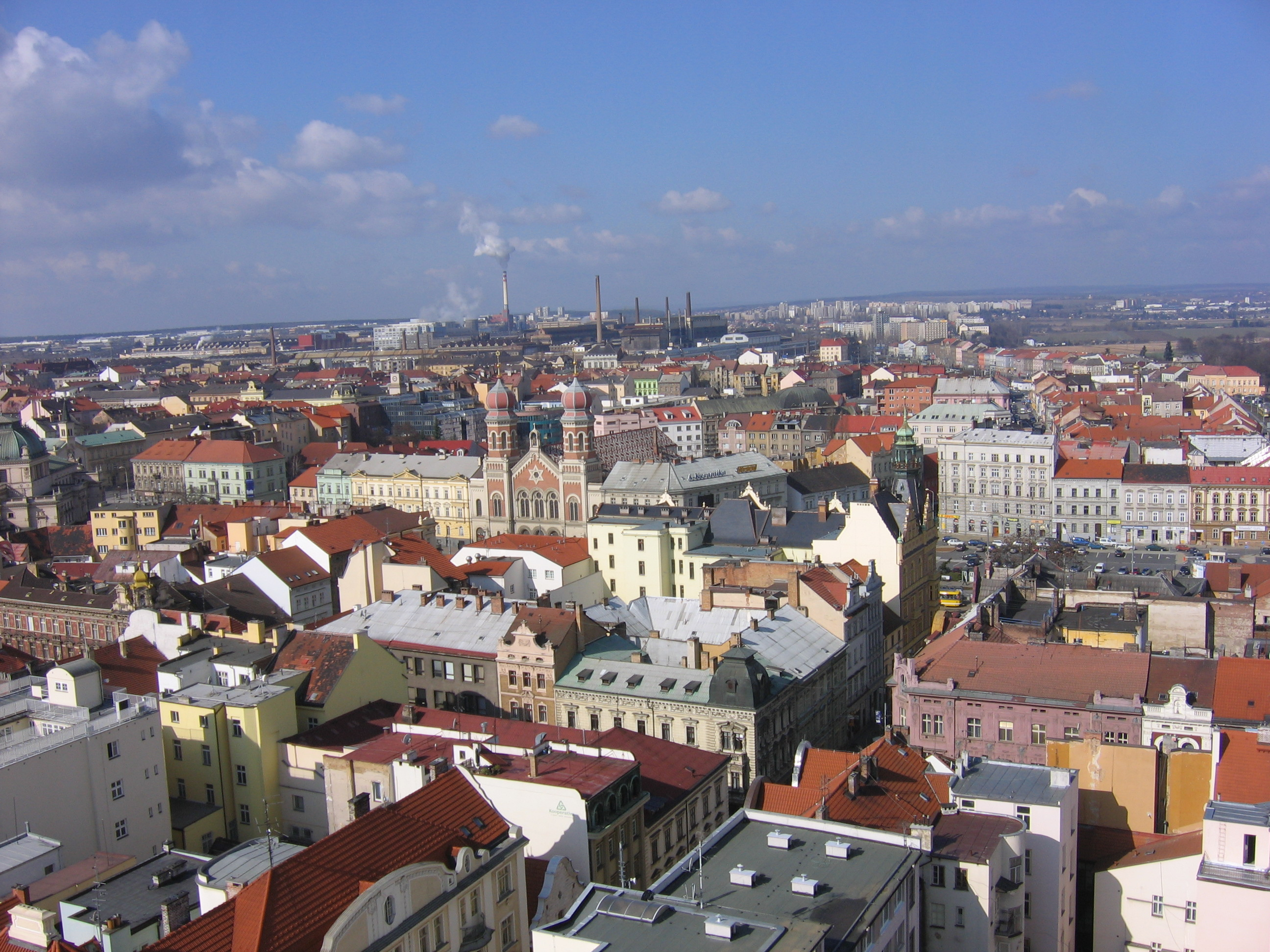 City of Plzeň, Czech Republic. Pilsen, Tschechien. View towards W-SW from the tower of the St. Bartholomew Church at the main square "Namesti Republiky". The Synagogue is visible as well as the Škoda Works in the background.